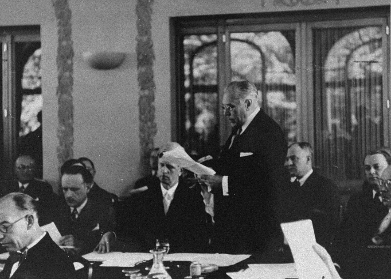 "Myron Taylor addresses the International Conference on Refugees at Evian-les-Bains. James Grover McDonald is seated next to him. On the far right edge of the picture is Robert Thompson Pell, an assistant to Myron Taylor at State. The man looking down, second from left of Taylor, with a dark tie and mustache is Georges Coulon."